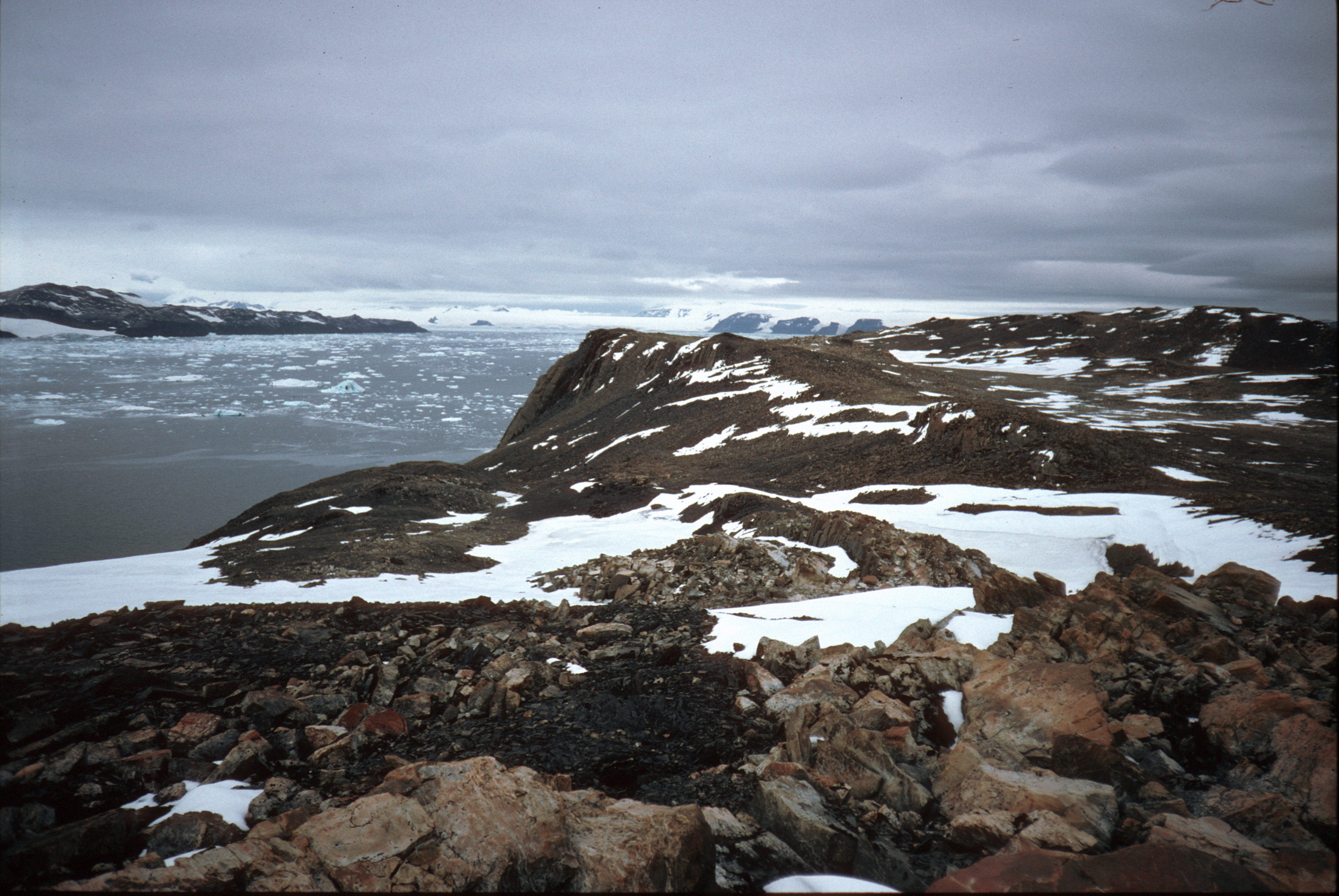 Jade Point is a gently sloping rocky point forming the south limit of Eyrie Bay, Trinity Peninsula